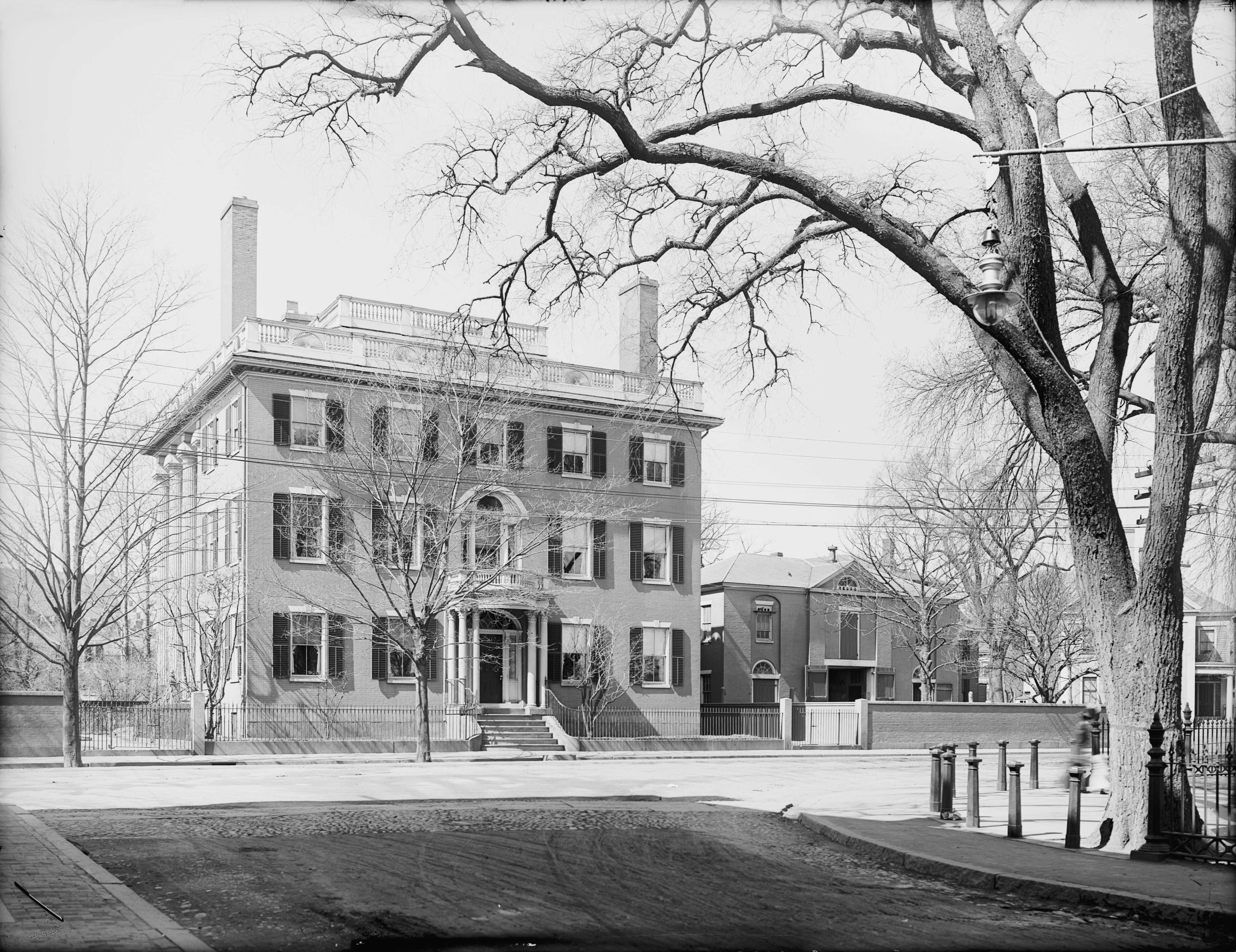 Andrew-Safford House @ 13 Washington Square, Salem, Massachusetts. Constructed 1819 in the federal style of architecture. Slight crop from the Library of Congress's version.